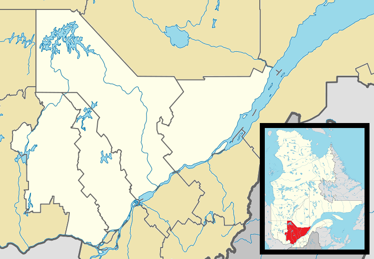 Map of central Québec Province for use in location map templates.